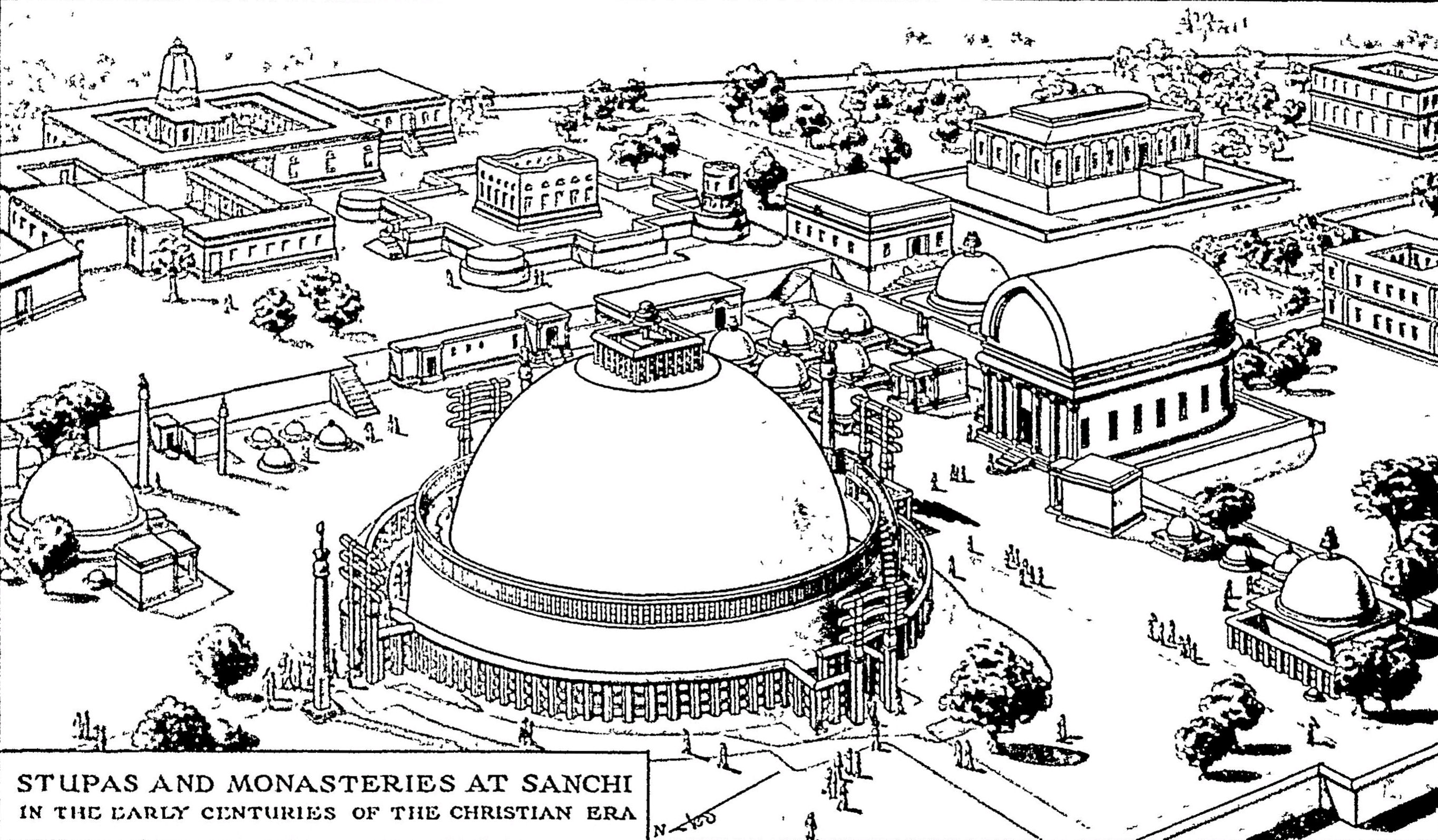 Stupas and monasteries at Sanchi in the early centuries of the Christian era